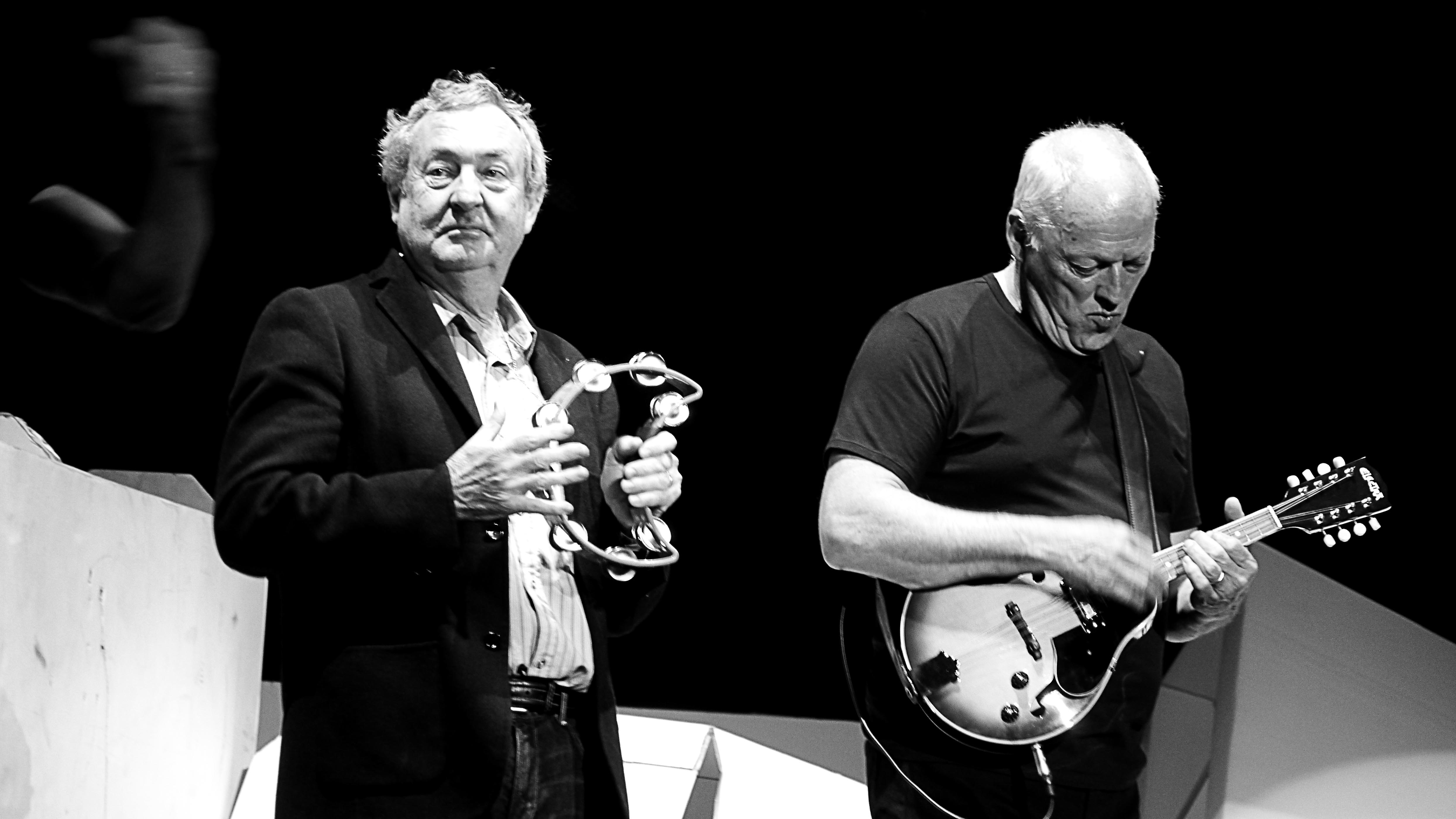 Nick Mason and David Gilmour at Roger Waters The Wall Live show in London